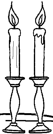 Cropped version of Image:Shabat Candles.GIF.